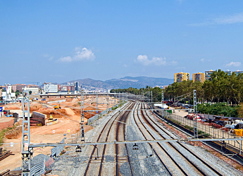 Works at the future Sagrera station (Barcelona, Spain).